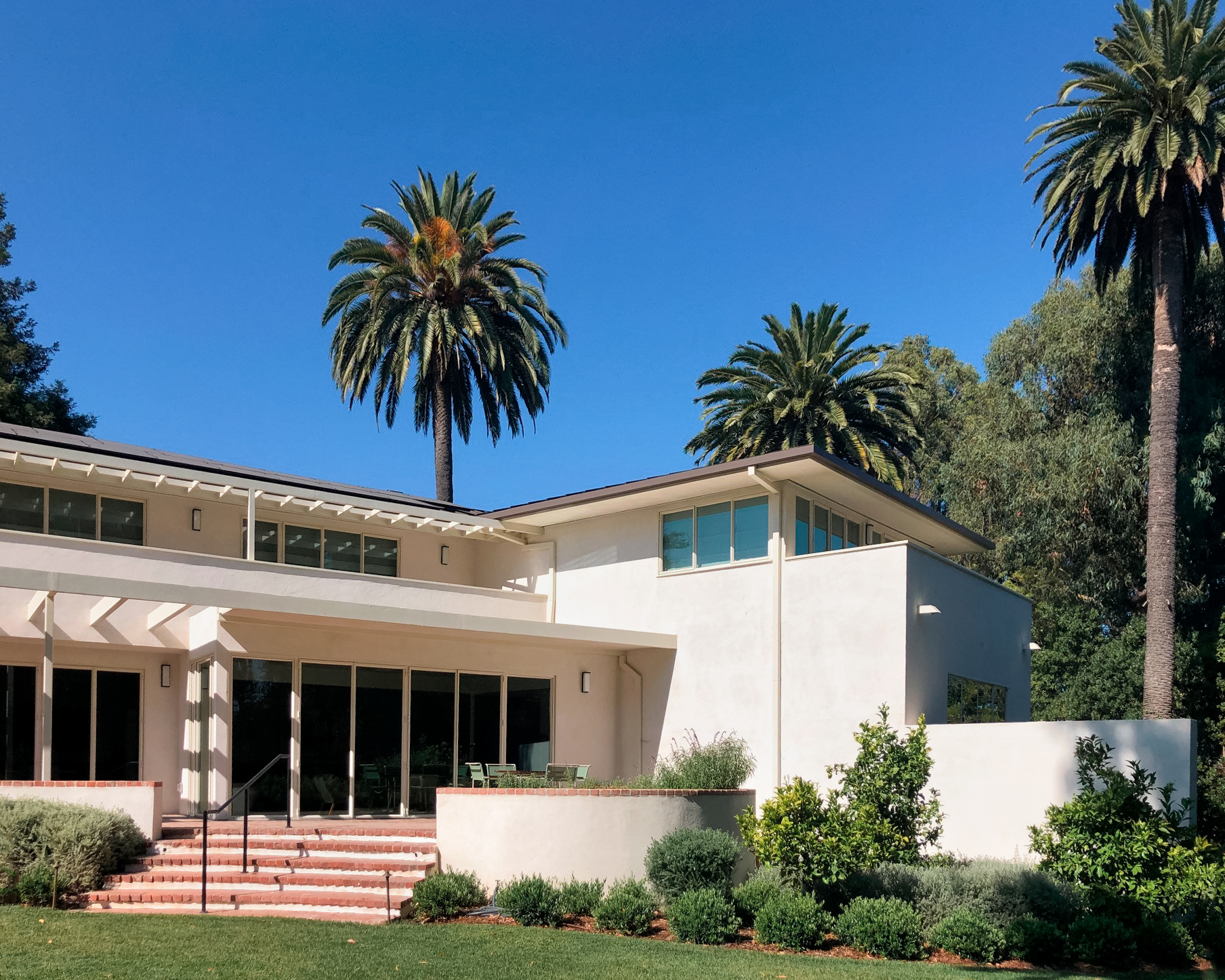 The Thomas Mann House viewed from the garden.